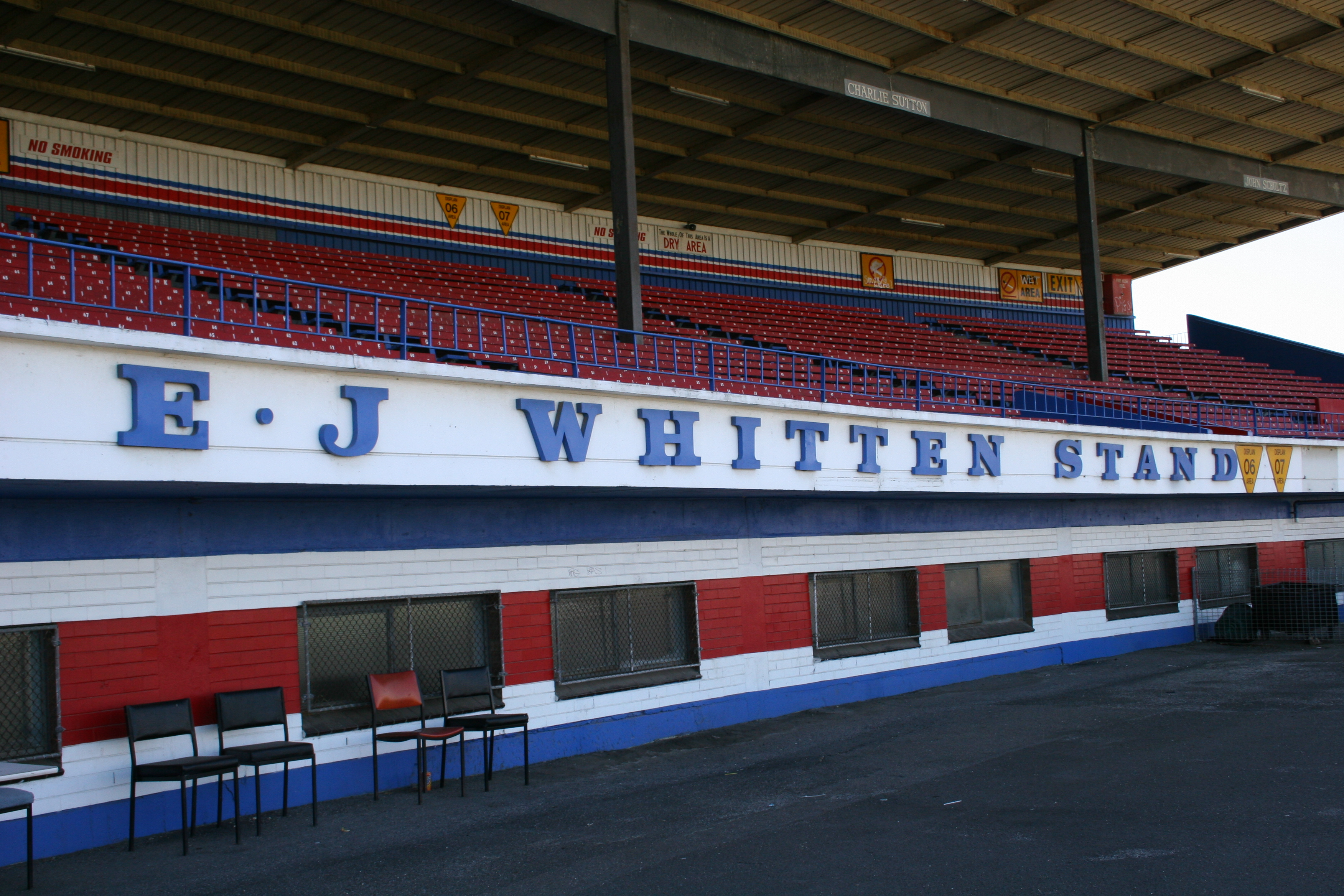 The EJ Whitten Stand